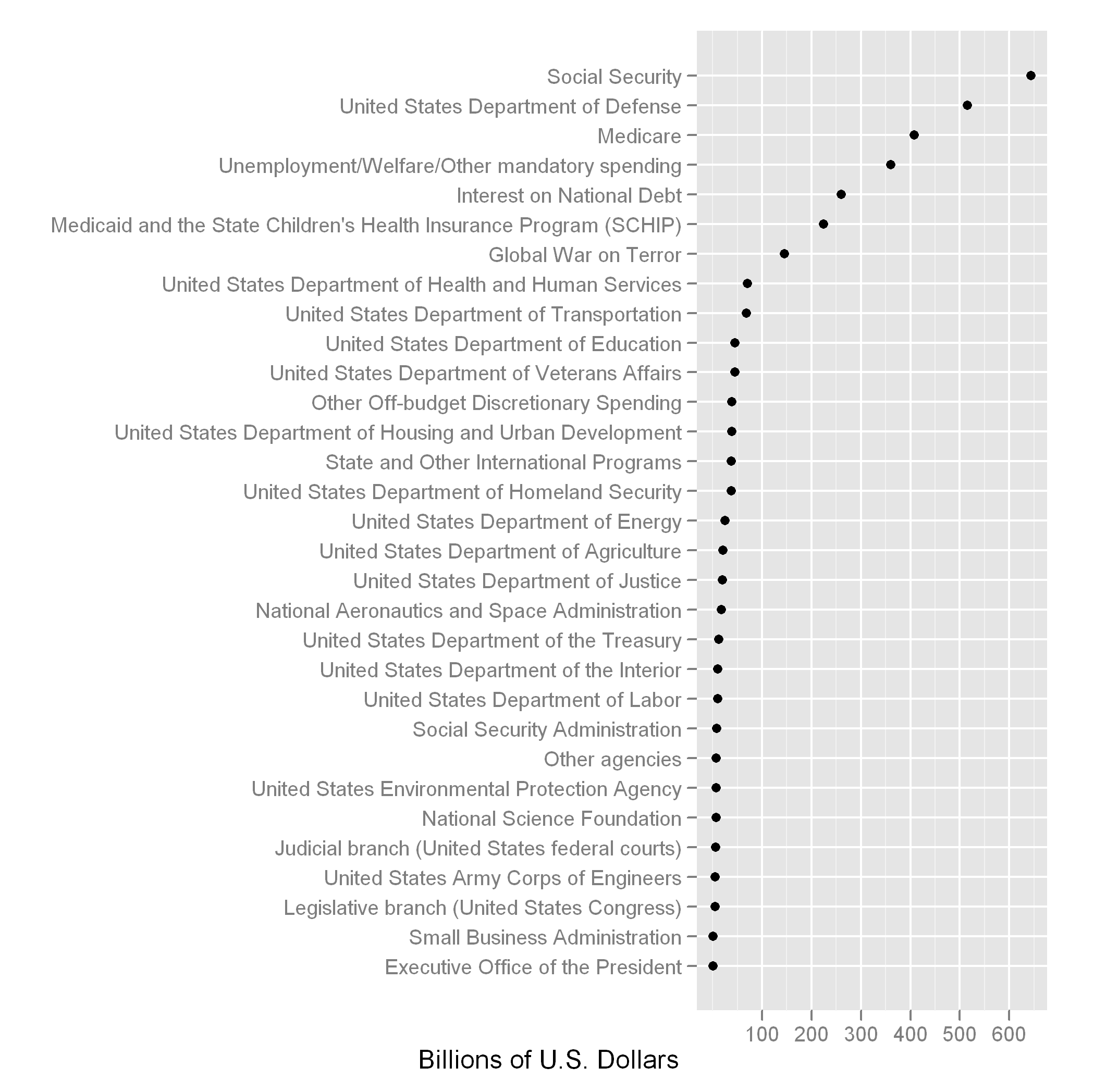 Dot plot of the total U.S. government budget in 2009, including both mandatory and discretionary. Taken from data at wikipedia:2009 United States federal budget.